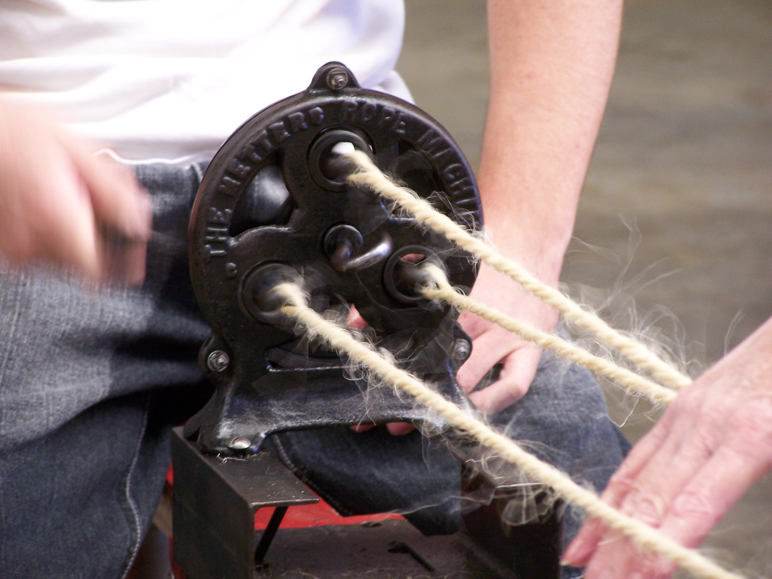 Rope making on a Metters Ltd Rope making machine made in Subiaco Western Australia 1928 purchase price in 1928 was twelve shillings six pence